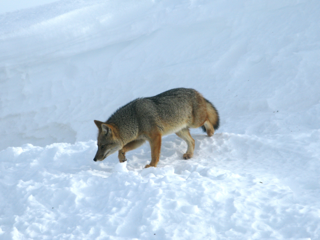 Culpeo (Culpeo zorro or Andean Fox (Wolf)) (Lycalopex culpaeus) - Ushuaia - Argentina